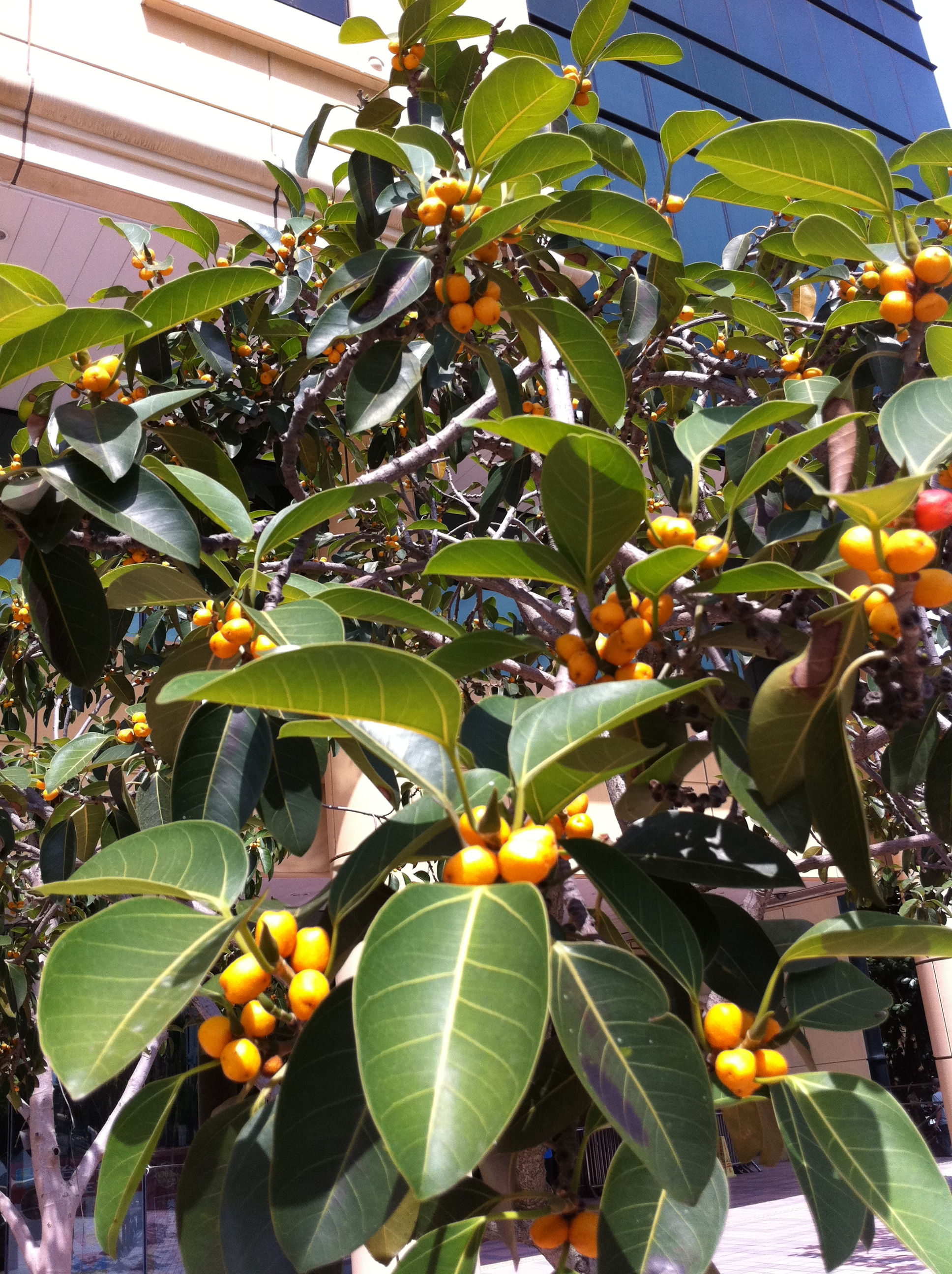 高山榕, Trees in Hong Kong Central Library terrace, Causeway Bay, Hong Kong